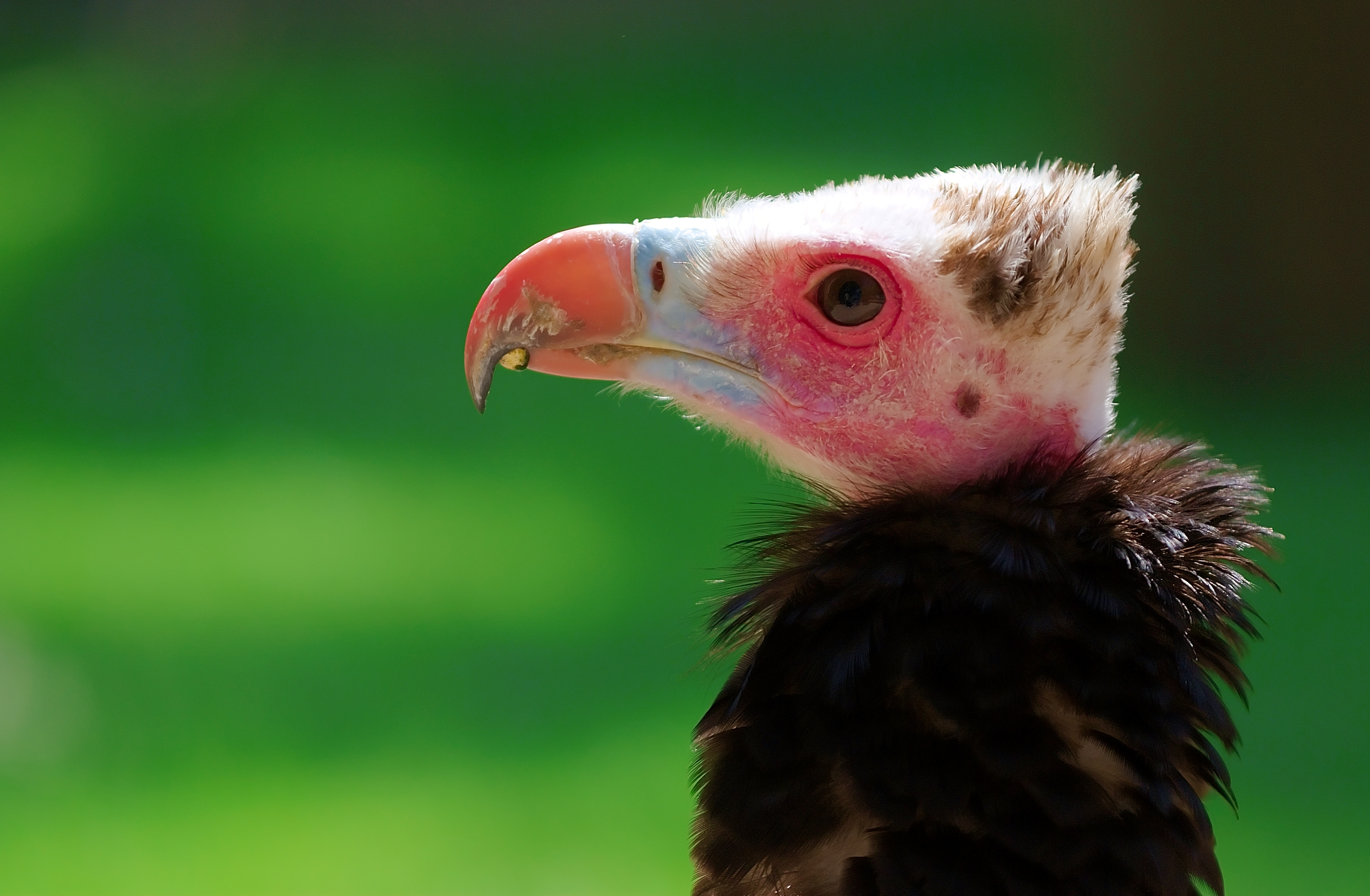 White-headed Vulture (Trigonoceps occipitalis)